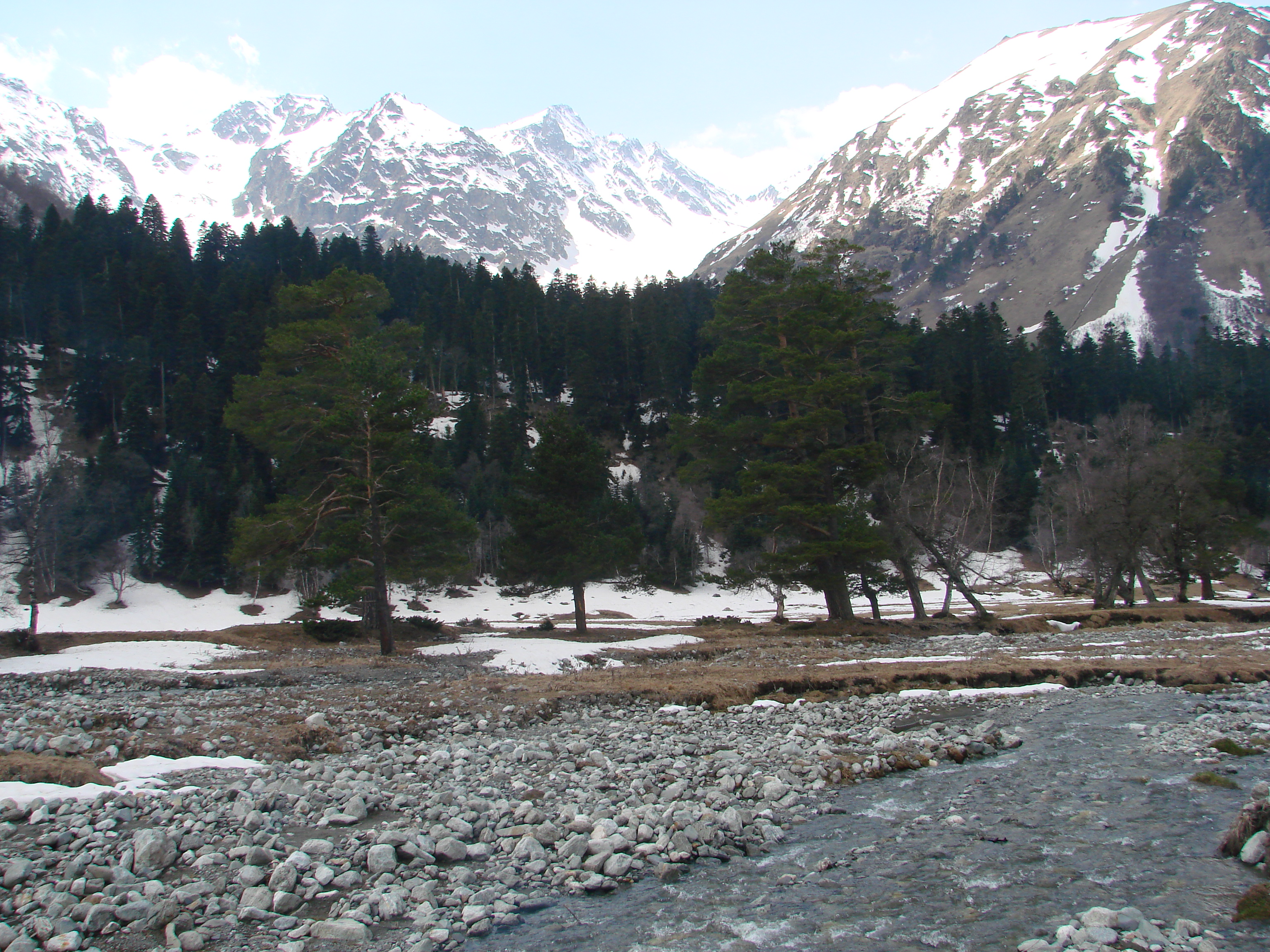 Zelenchuksky District, Karachay-Cherkessia, Russia